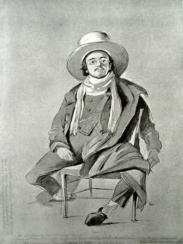 Cartoon portrait of Samuel Palmer (c. 1849) in his large overcoat made for him by his old nurse - large enough to carry around sketchbooks and paintboxes in the pockets. The unusual hat was also a distinctive feature.